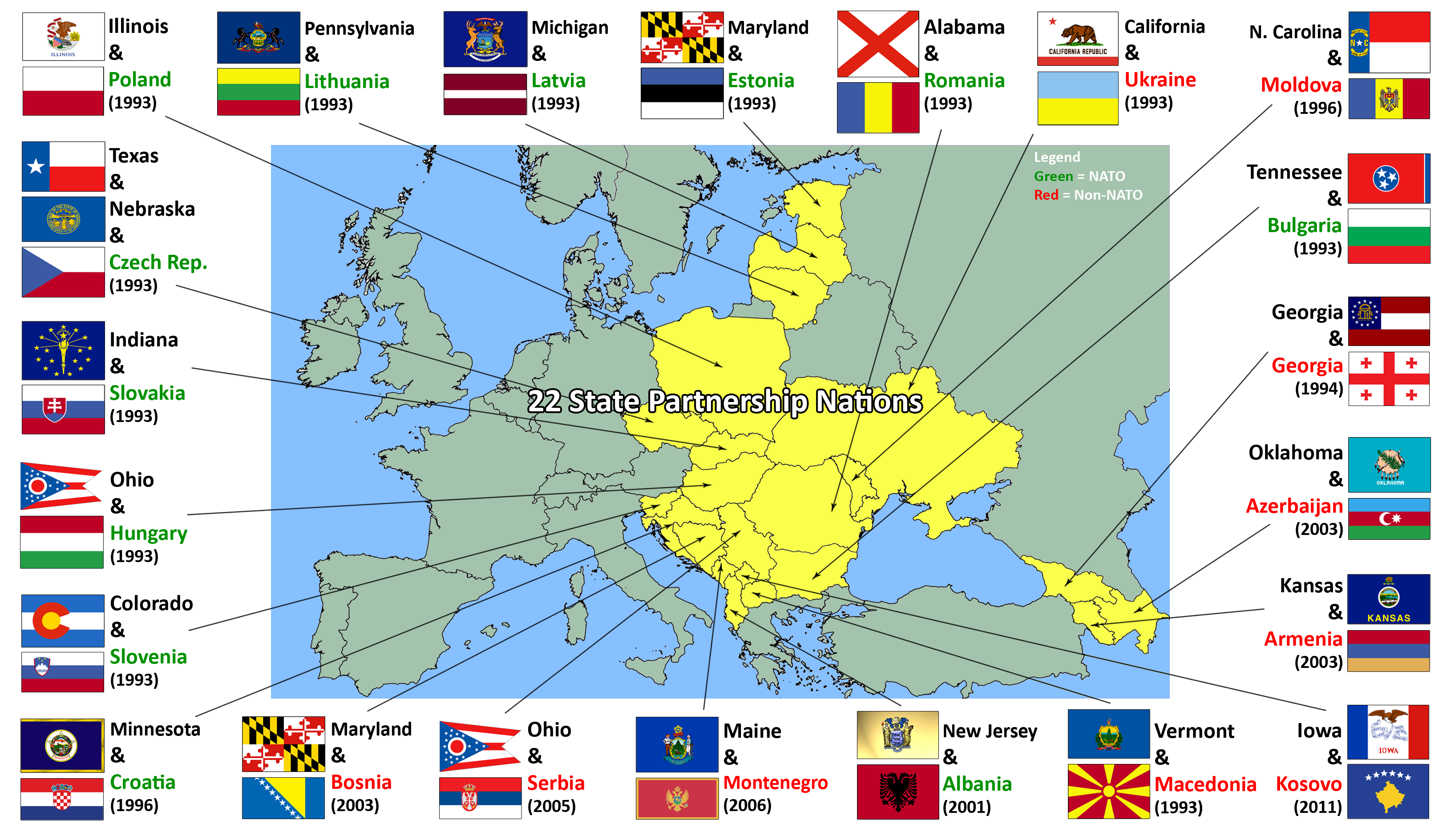 A map of the EUCOM SPP